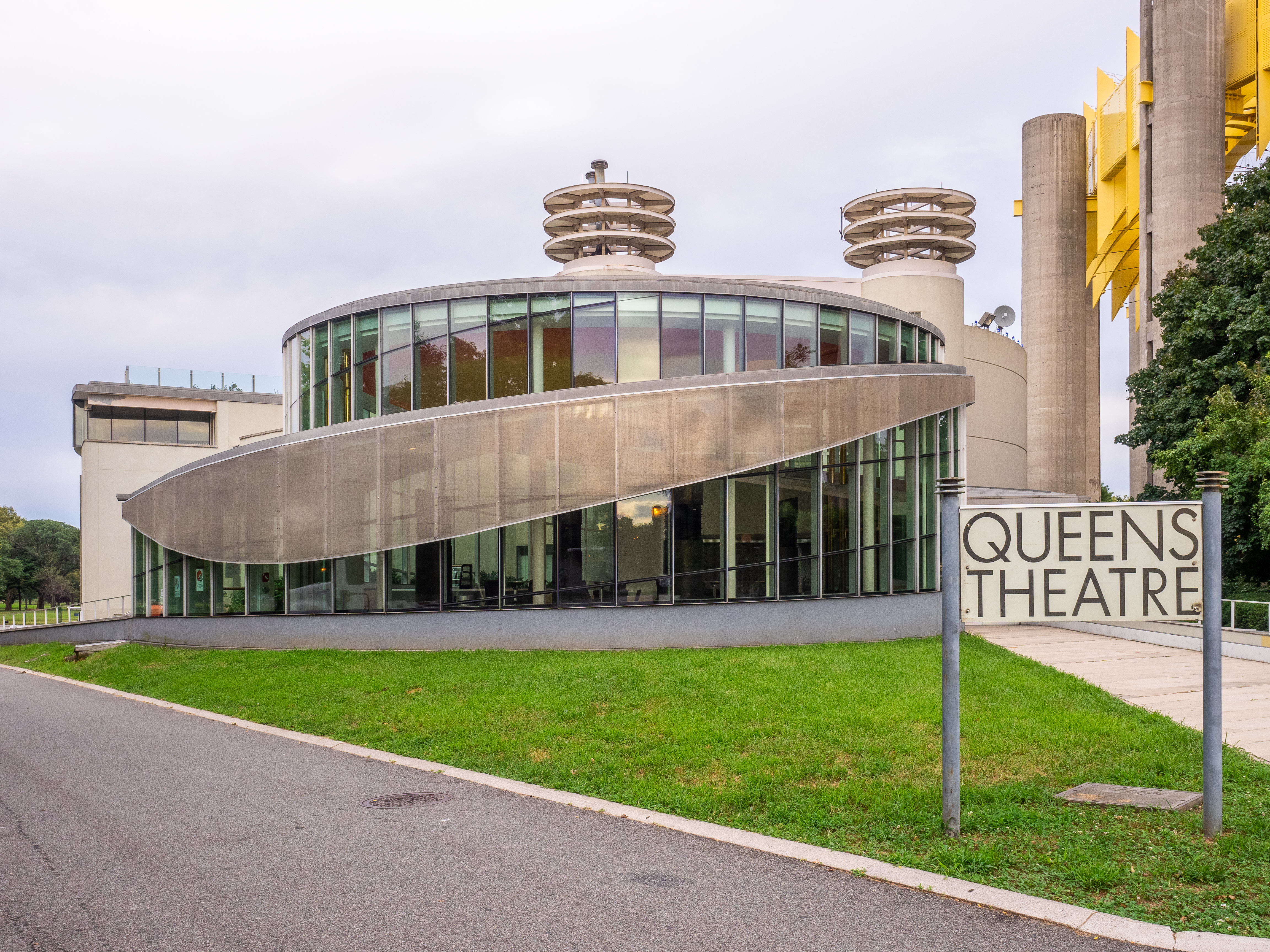 Flushing Meadows–Corona Park, Queens, NYC